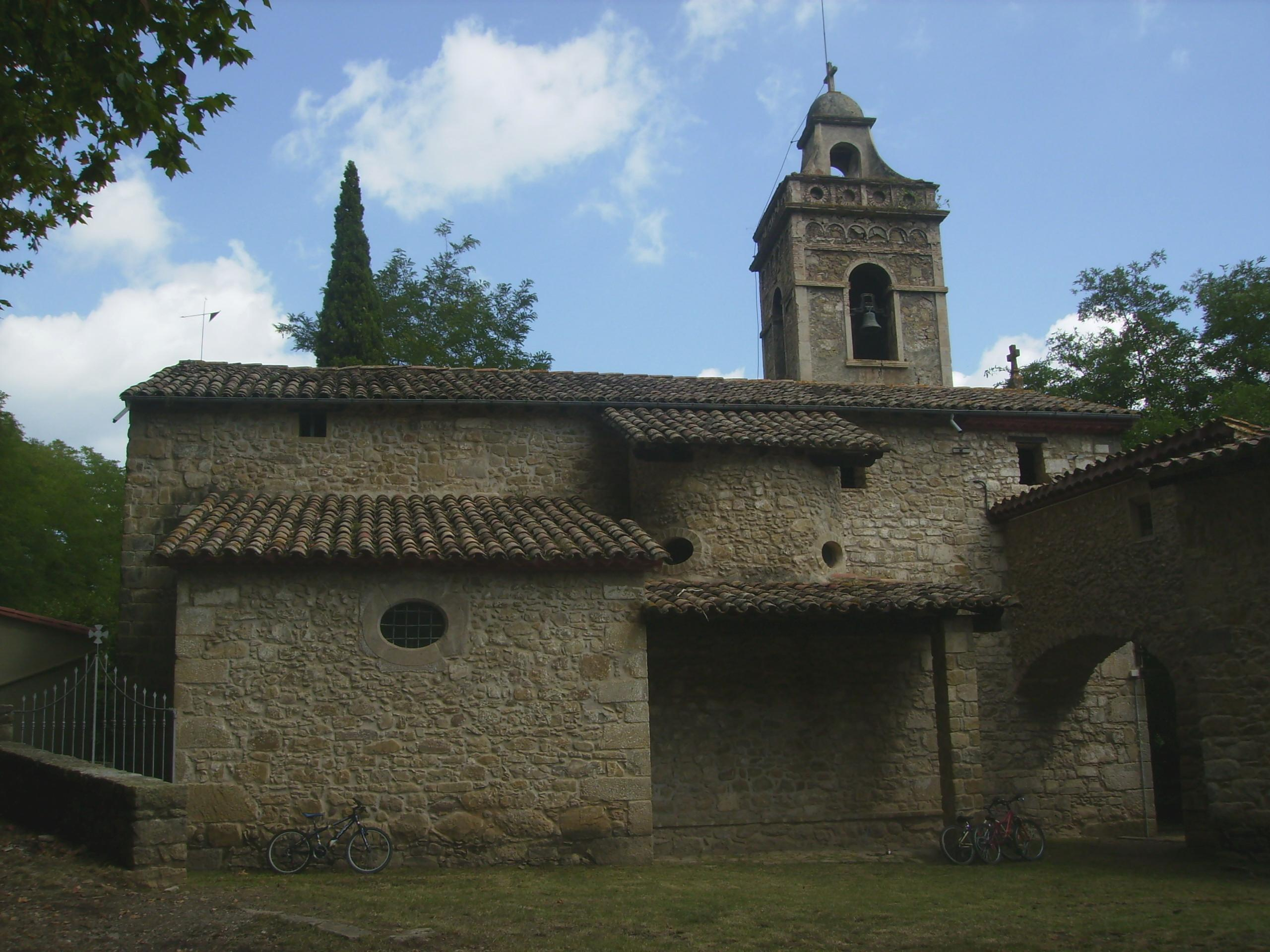 Santa Maria of Puigpardines (Catalonia)